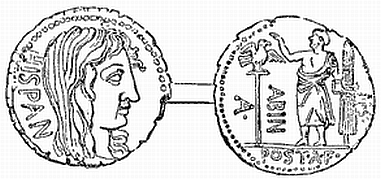 Illustration of coin of Aulus Postumius Albinus